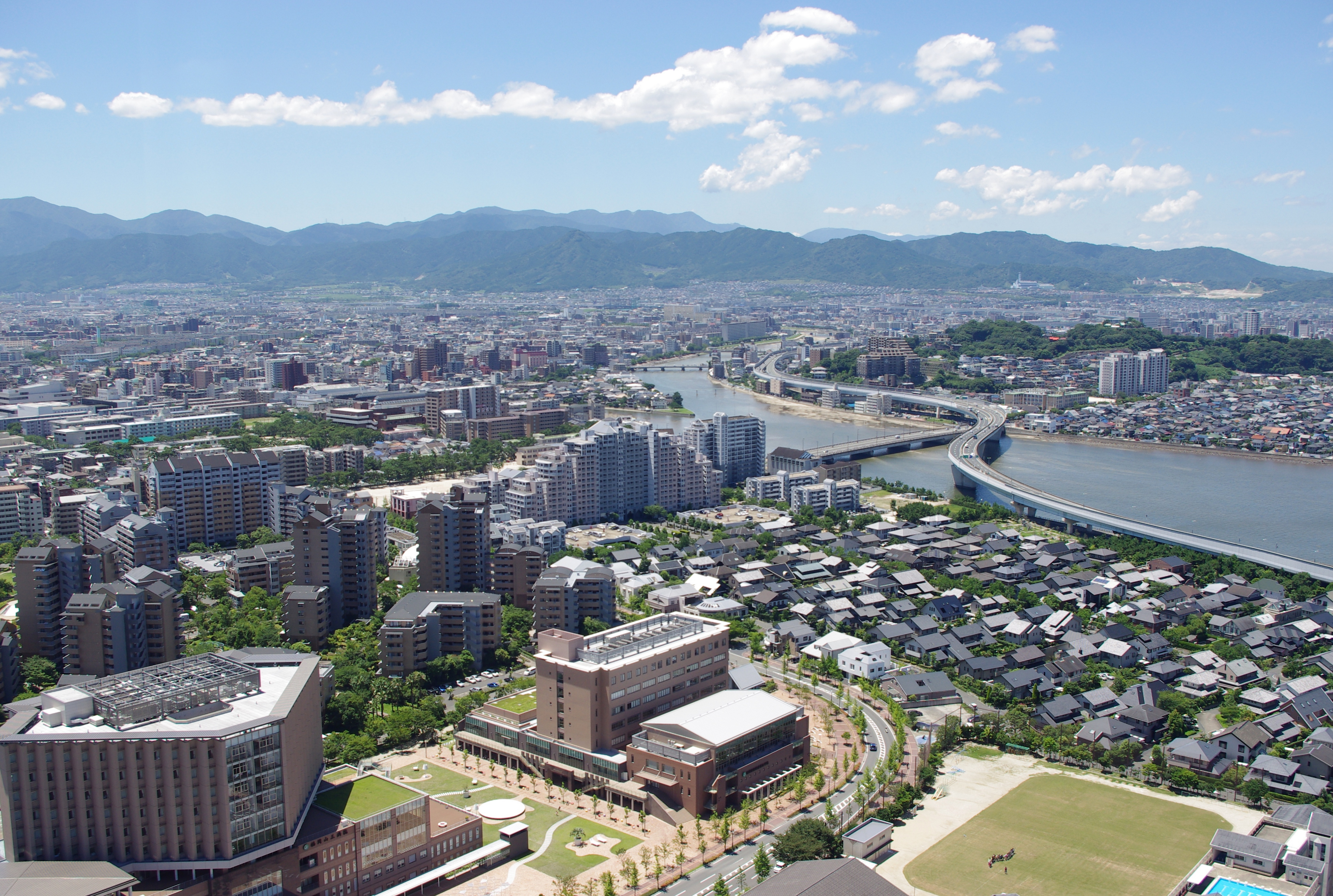 Fukuoka seen from Fukuoka Tower